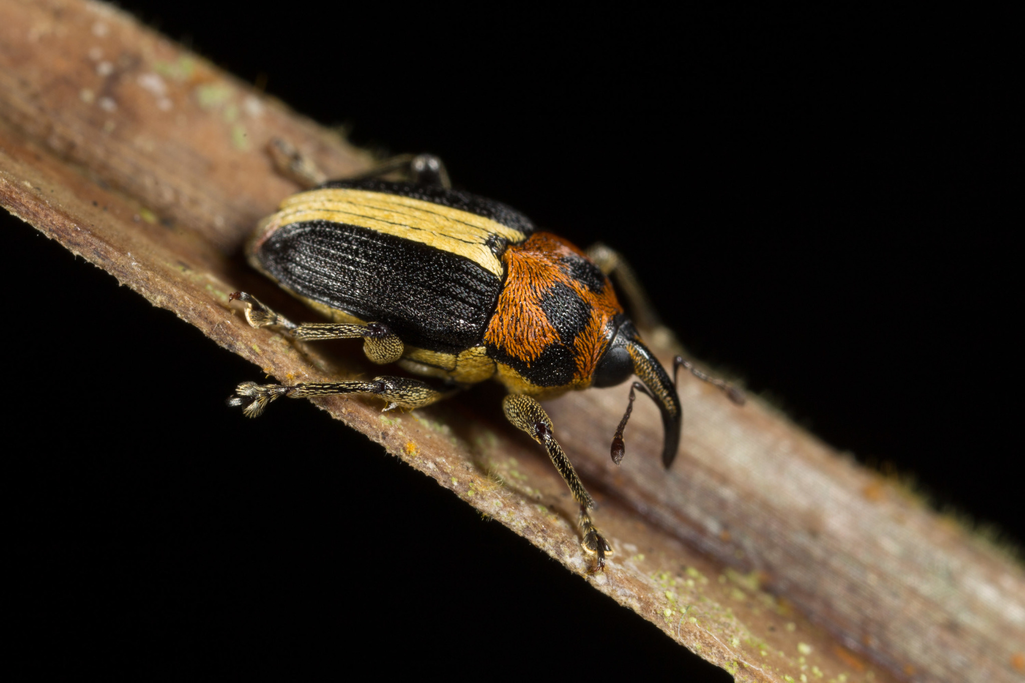 Leptoschoinella quadripunctata. Species of insect.